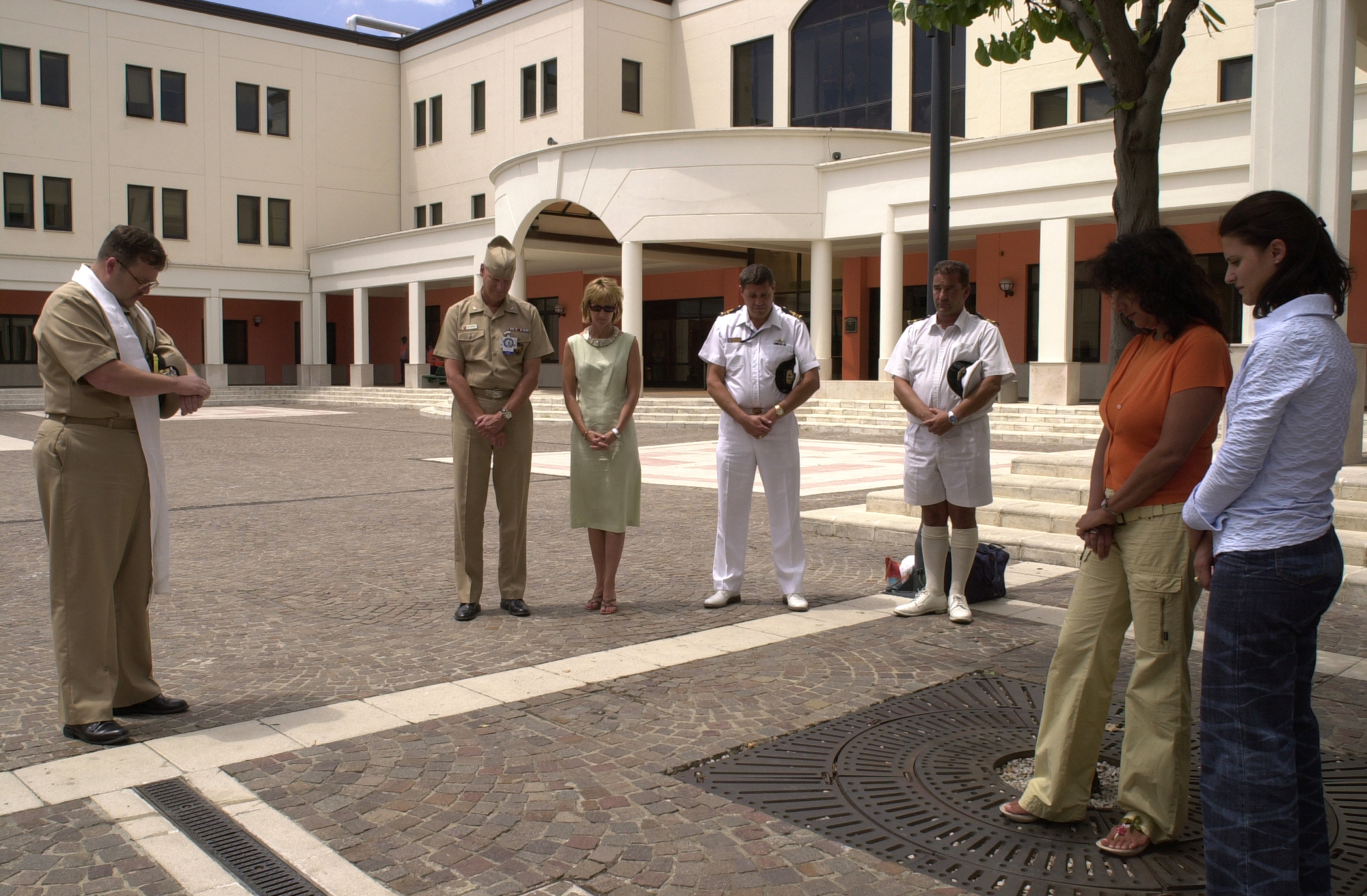 Naples, Italy (July 14, 2005) – Navy Chaplain Dave McBeth, left, leads an informal gathering of personnel aboard Naval Support Activity (NSA) Naples during a Europe-wide coordinated two-minute moment of silence held throughout the European Union in support of the United Kingdom and to honor their recent tragic losses. U.S. Navy photo by Photographer’s Mate 1st Class William J. Kipp, Jr. (RELEASED)